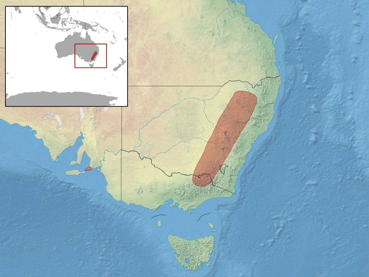 geographic distribution of Eulamprus heatwolei